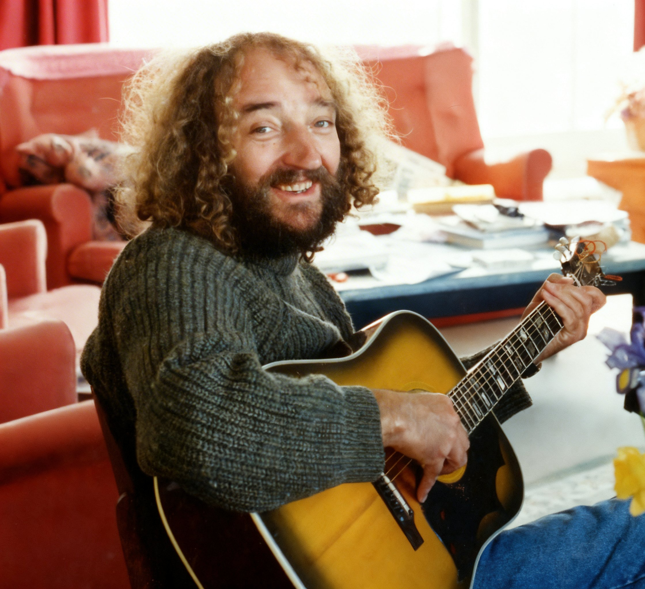 Vin Garbutt (UK folk musician) relaxing during his Australian tour, 1994 (Tony Rees photograph)